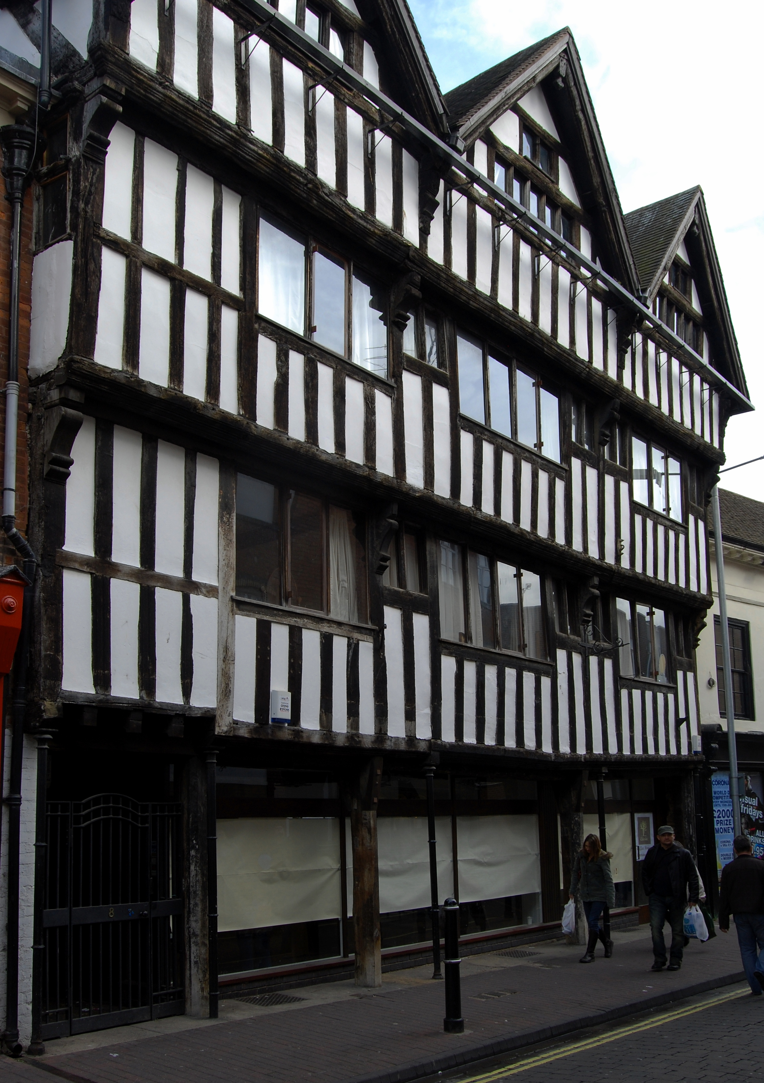 Tudor Building, New Street. Empty May 2009